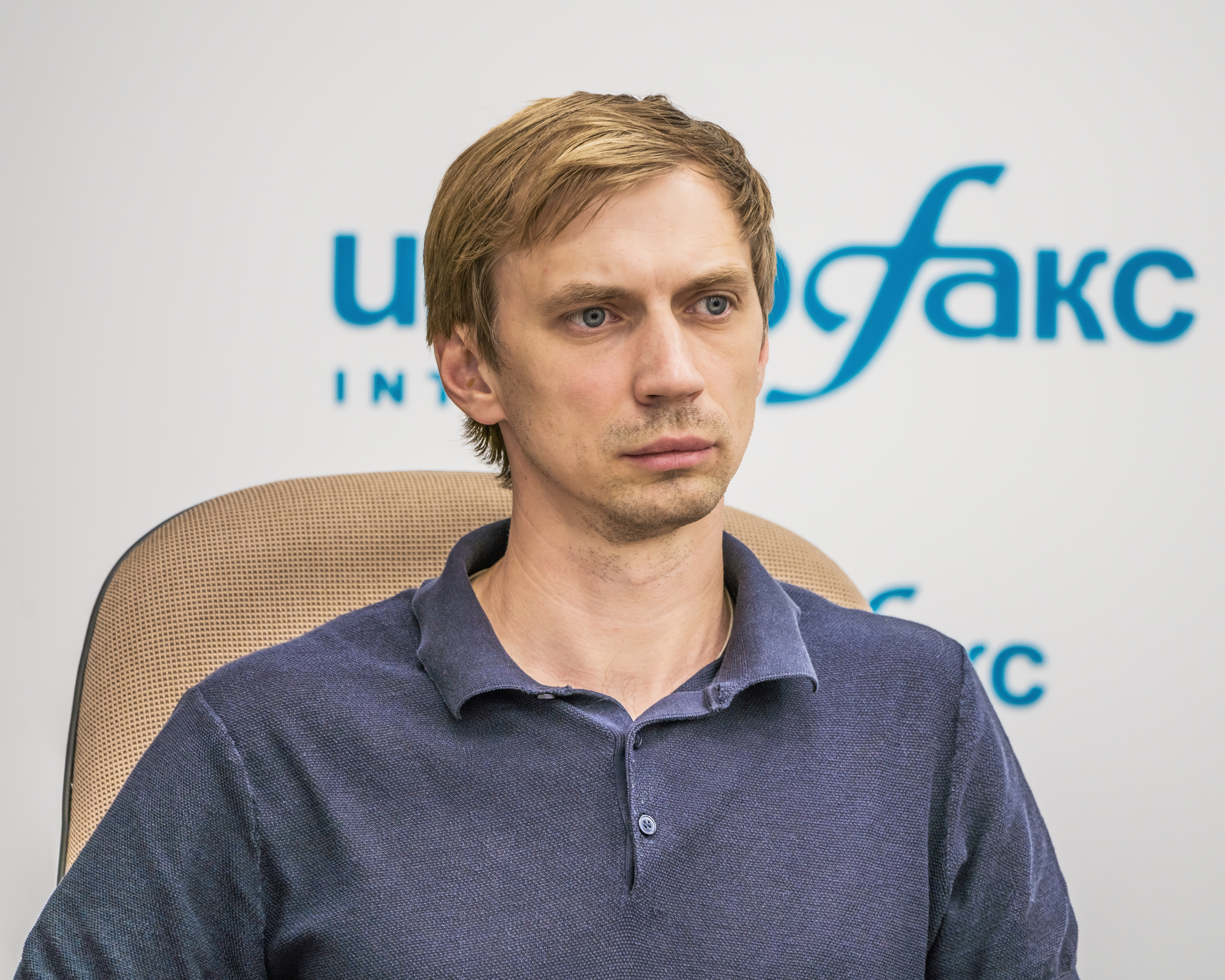 Andrey Silnov is a Russian former high jumper. Photo taken at Interfax press center in Moscow.